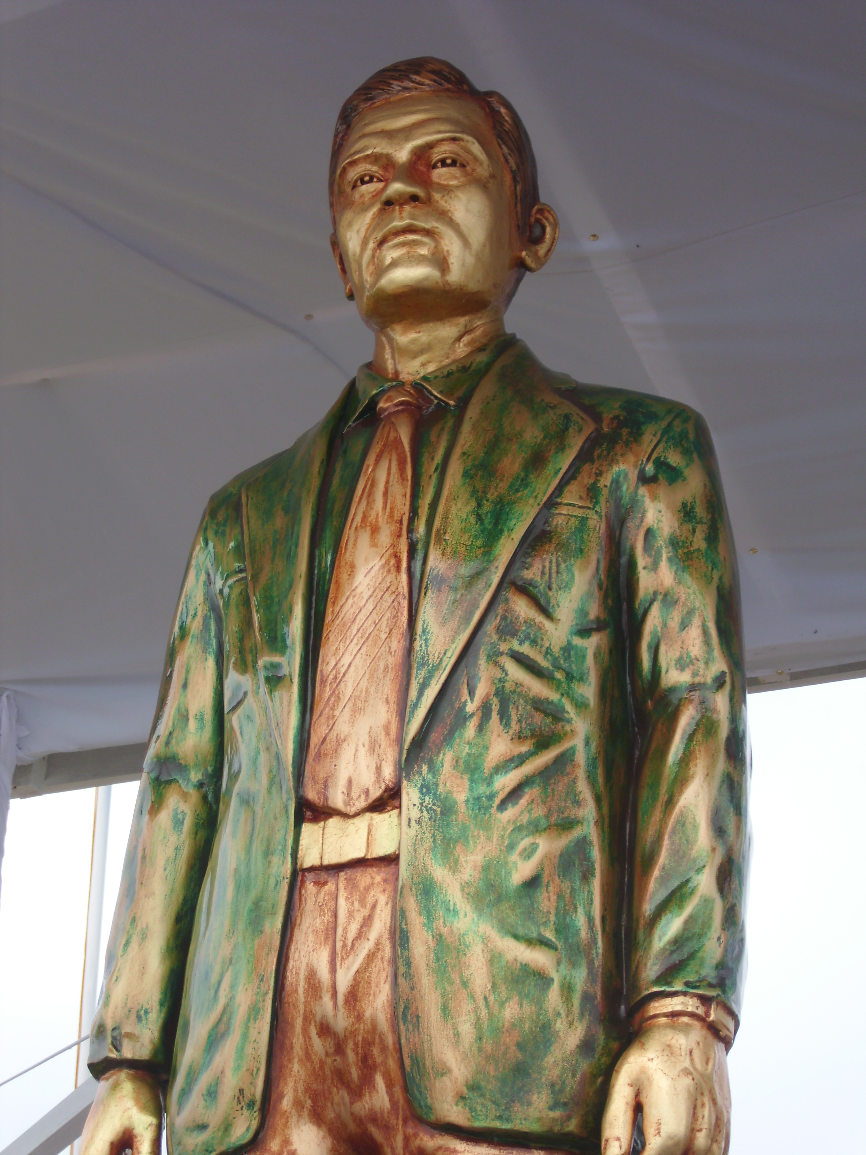 The Monument of Ruben Edera Ecleo Sr. located at Cabilan Islands, Municipality of Dinagat, Province of Dinagat Islands.